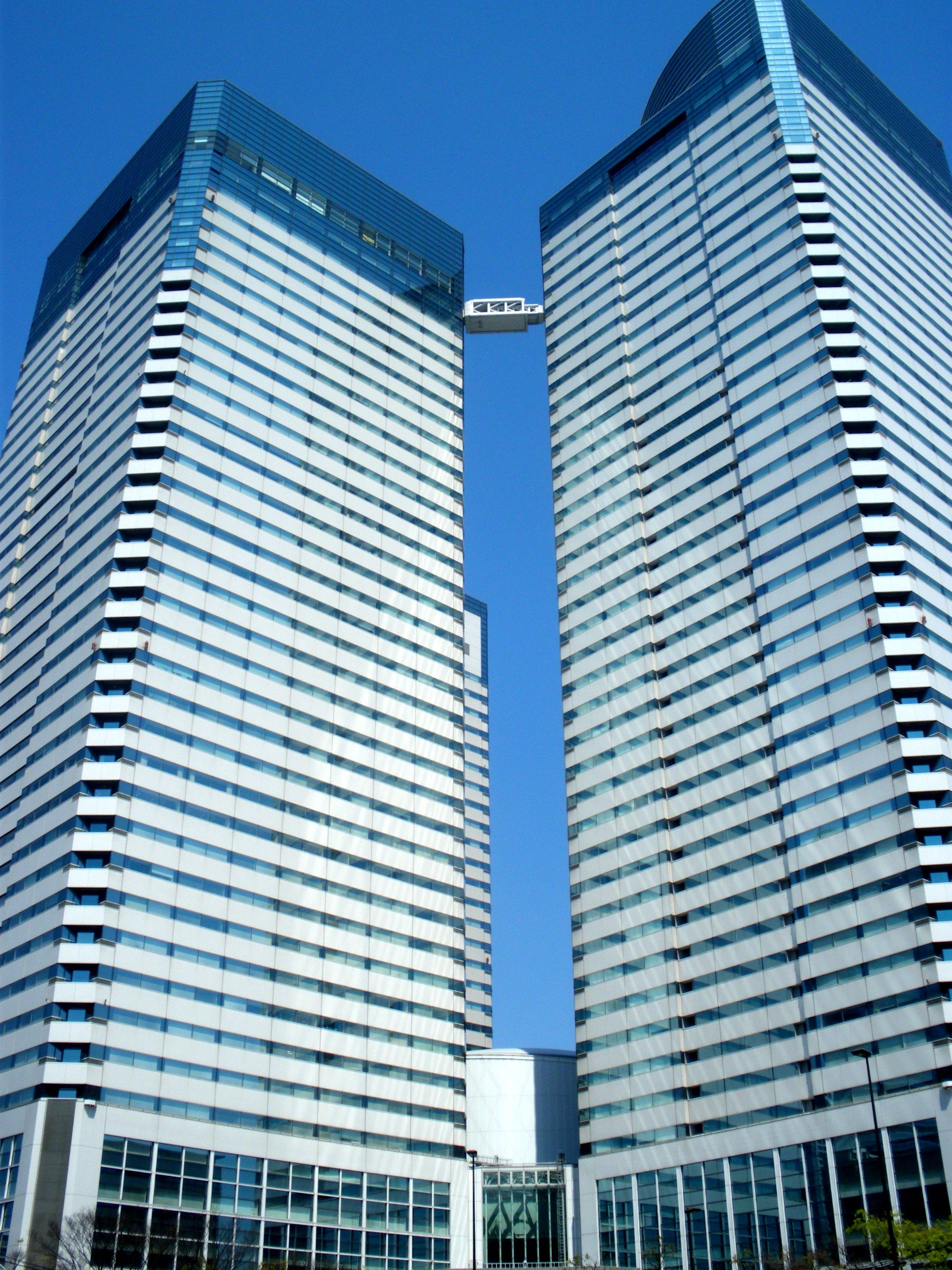 A photo of Harumi Island Triton Square, Harumi,Chuo-ku, Tokyo,Japan.